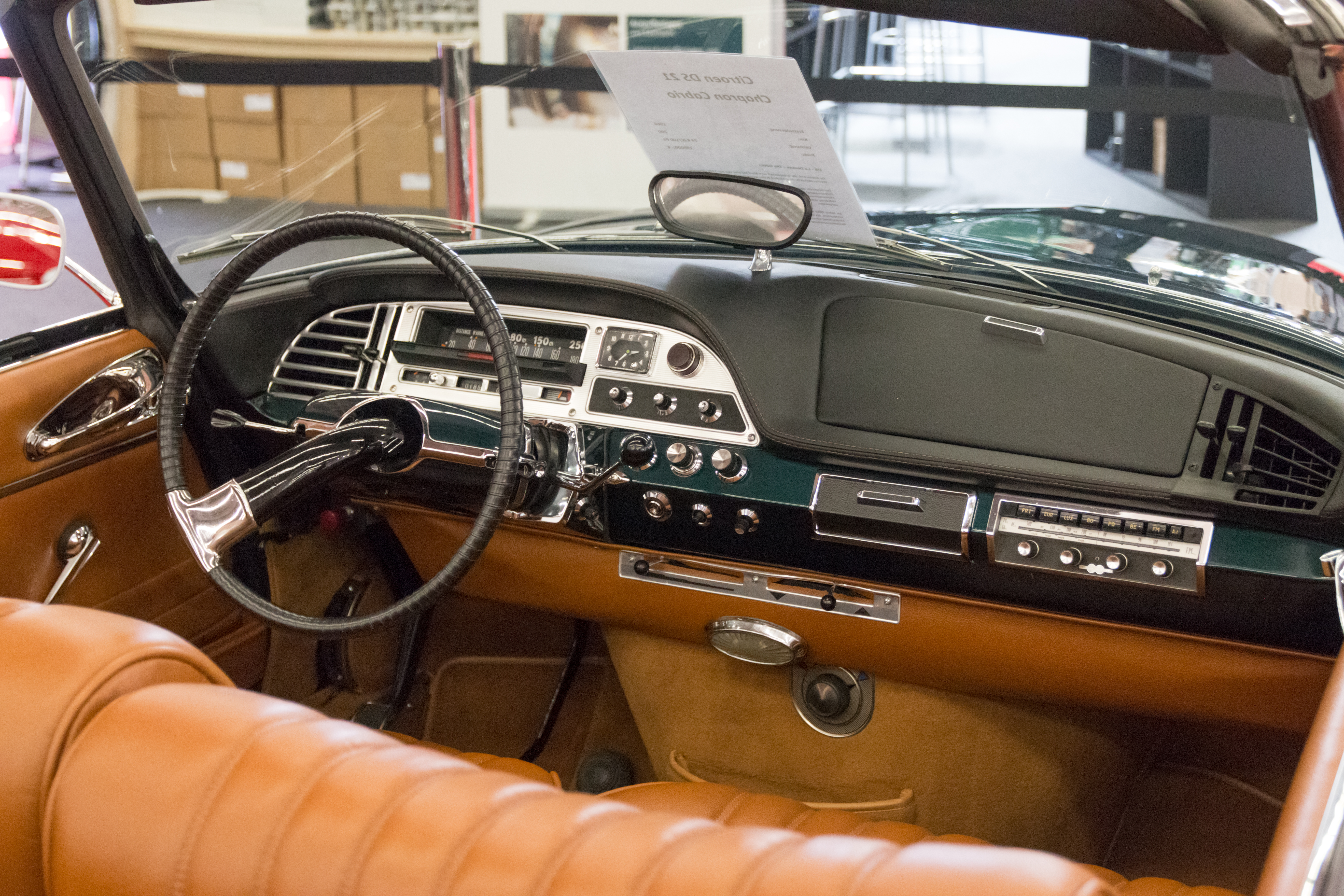 Citroën DS Cabriolet